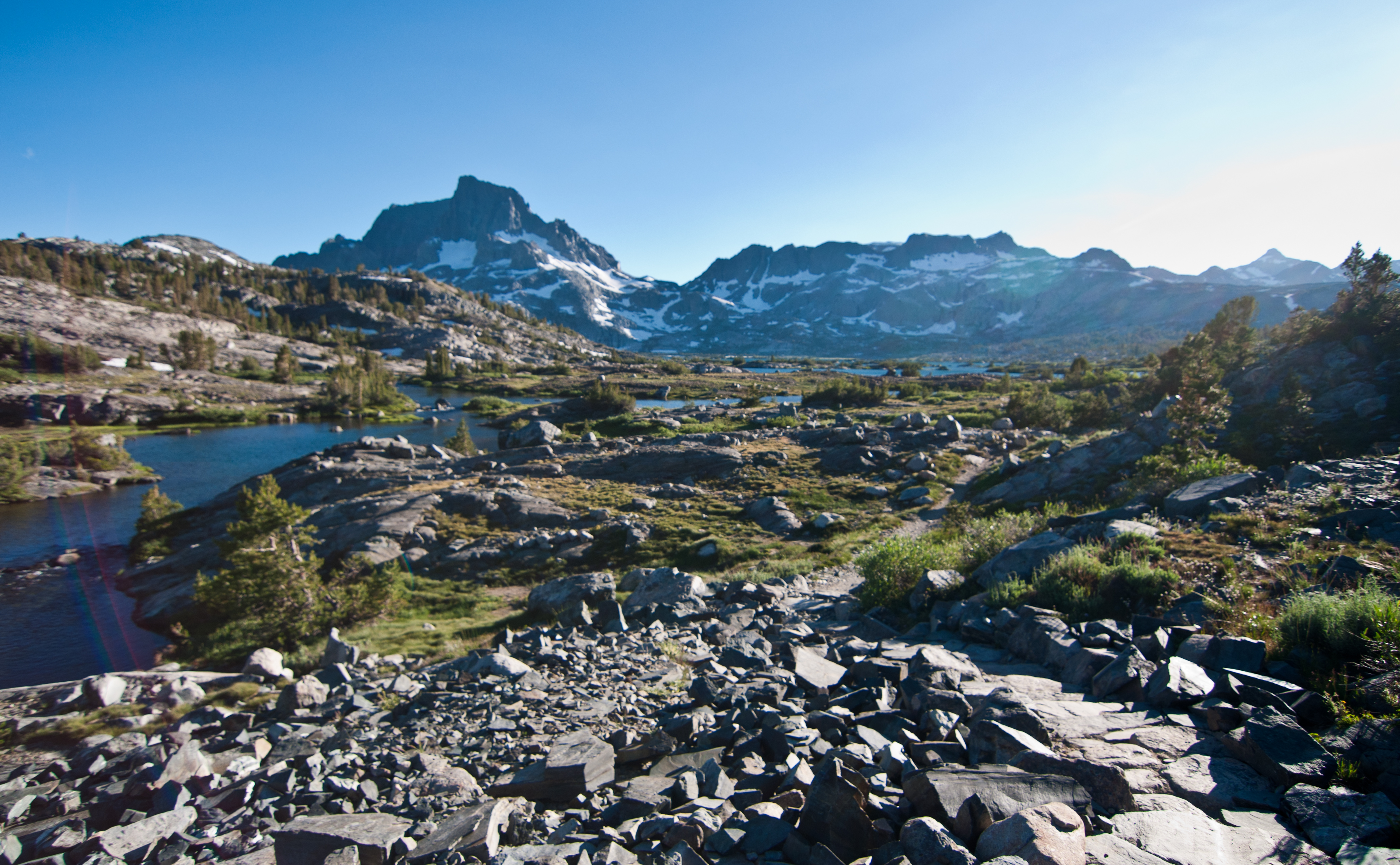 Trail before Thousand Island Lake, Ansel Adams Wilderness, California